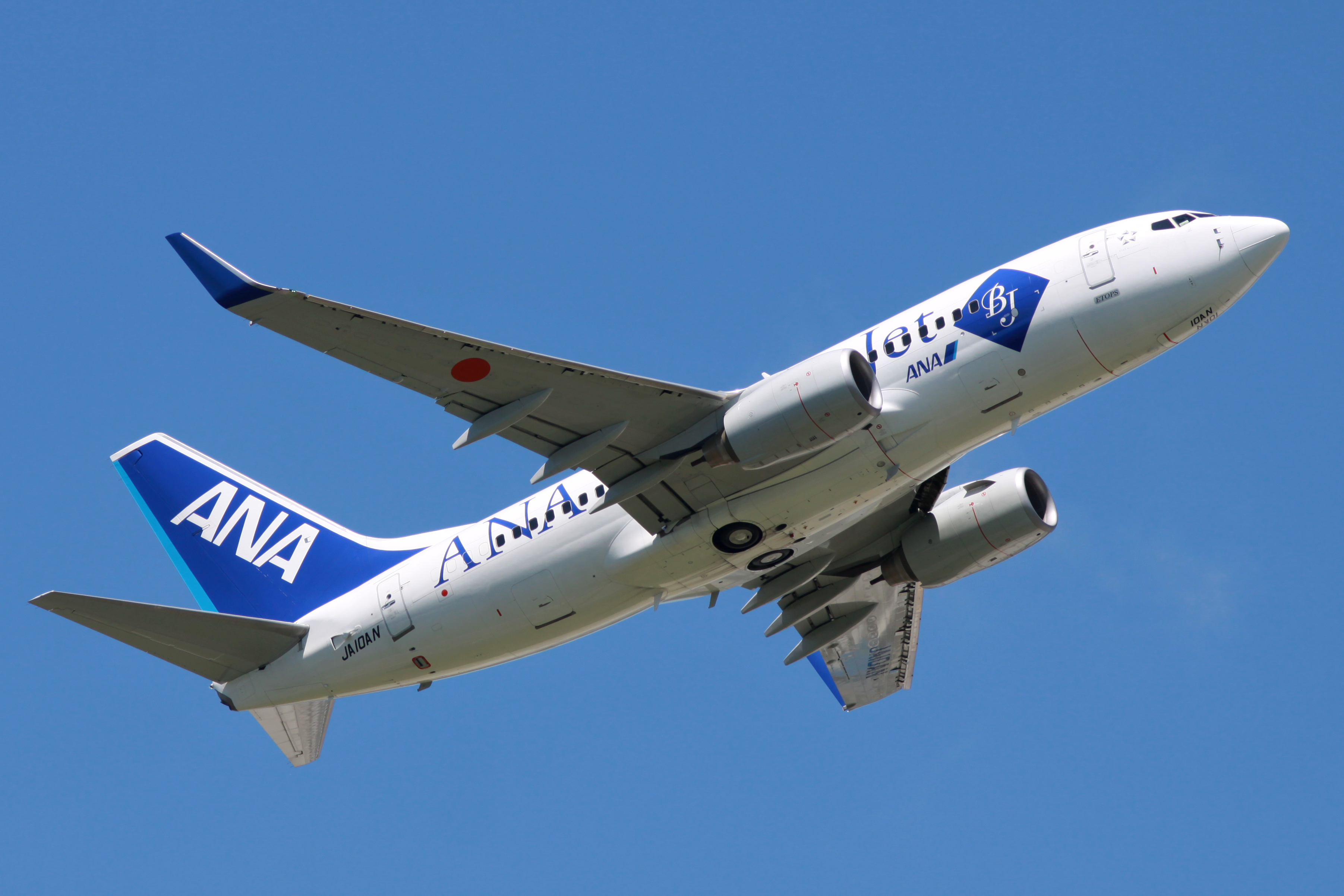 Narita International Airport, Boeing 737-781ER, c/n:33879, All Nippon Airways